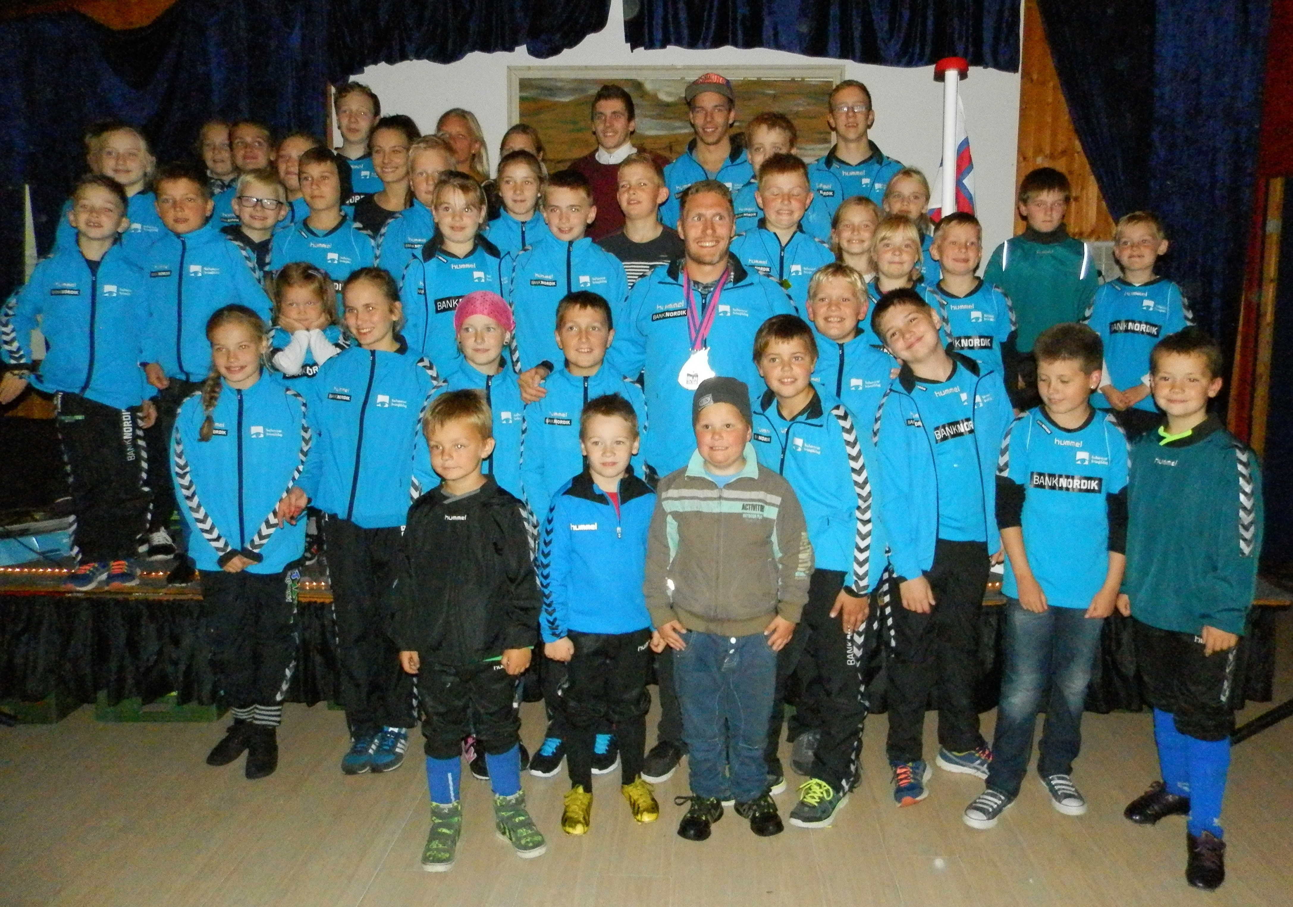 Susvim is a swimming club from the island Suðuroy in the Faroe Islands. Pál Joensen began his swimming career swimming for this club. In August 2014 he won two silver medals at the European Aquatics Championships in Berlin. He lives in Denmark now, but took time to visit his country and his hometown on 3 September 2014, where he was celebrated with fireworks, speeches, cakes etc. Here he is standing together with the children and young swimmers of Susvim.